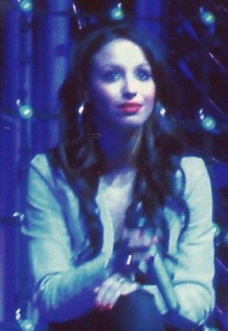 Sugababes - Hammersmith Apollo 110406